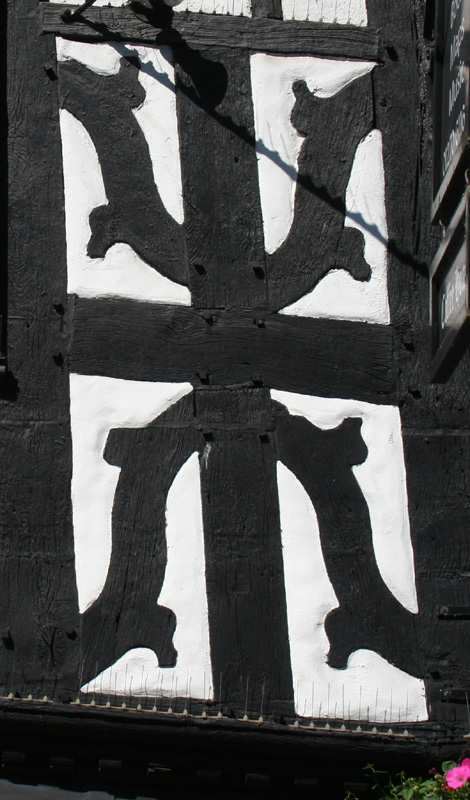 Decorative panel from 46 High Street, Nantwich, Cheshire